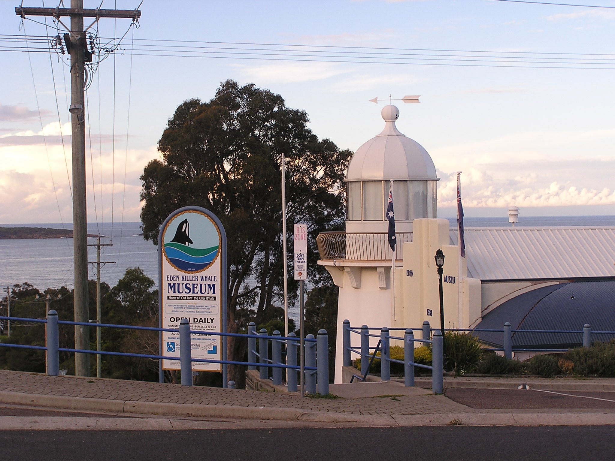 Killer Whale museum at Eden, Australia. The museum houses the skeeton of Old Tom